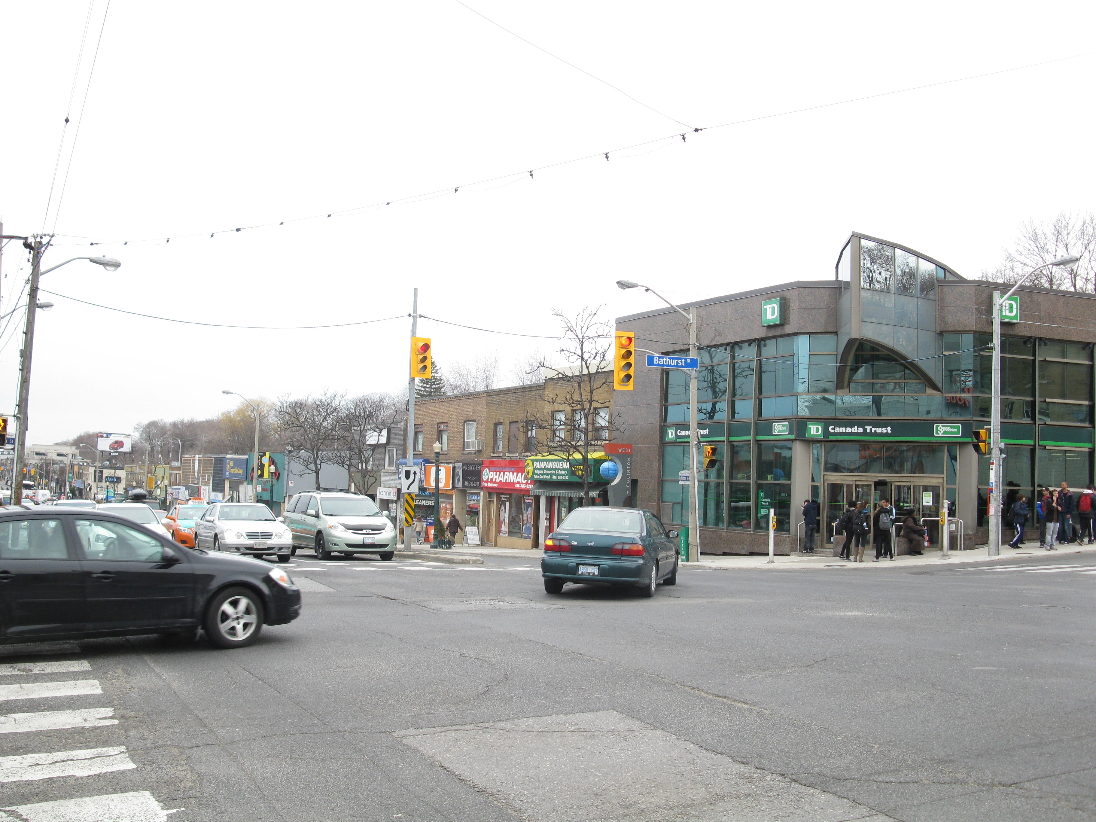 Intersection of Bathurst and Eglinton, 2013 04 09 -ad On April 9, 2013, the day the first tunnel boring machine started to bore the Eglinton Crosstown, I bought a TTC day pass and got off to take "before" pictures of the site of every future underground station between Mount Dennis and Yonge Street. I plan to return for "after" pictures when the Crosstown opens in 2020. This photo was taken near the future site of the Bathurst Street LRT Station.